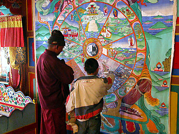 Monk describes a section of a Mandala. TaGong Monastery (elevation 4200 m), a Tibetan Buddhist monastery and temple in Kangding. Located in the Garzê Tibetan Autonomous Prefecture of western Sichuan Province, southwestern China.